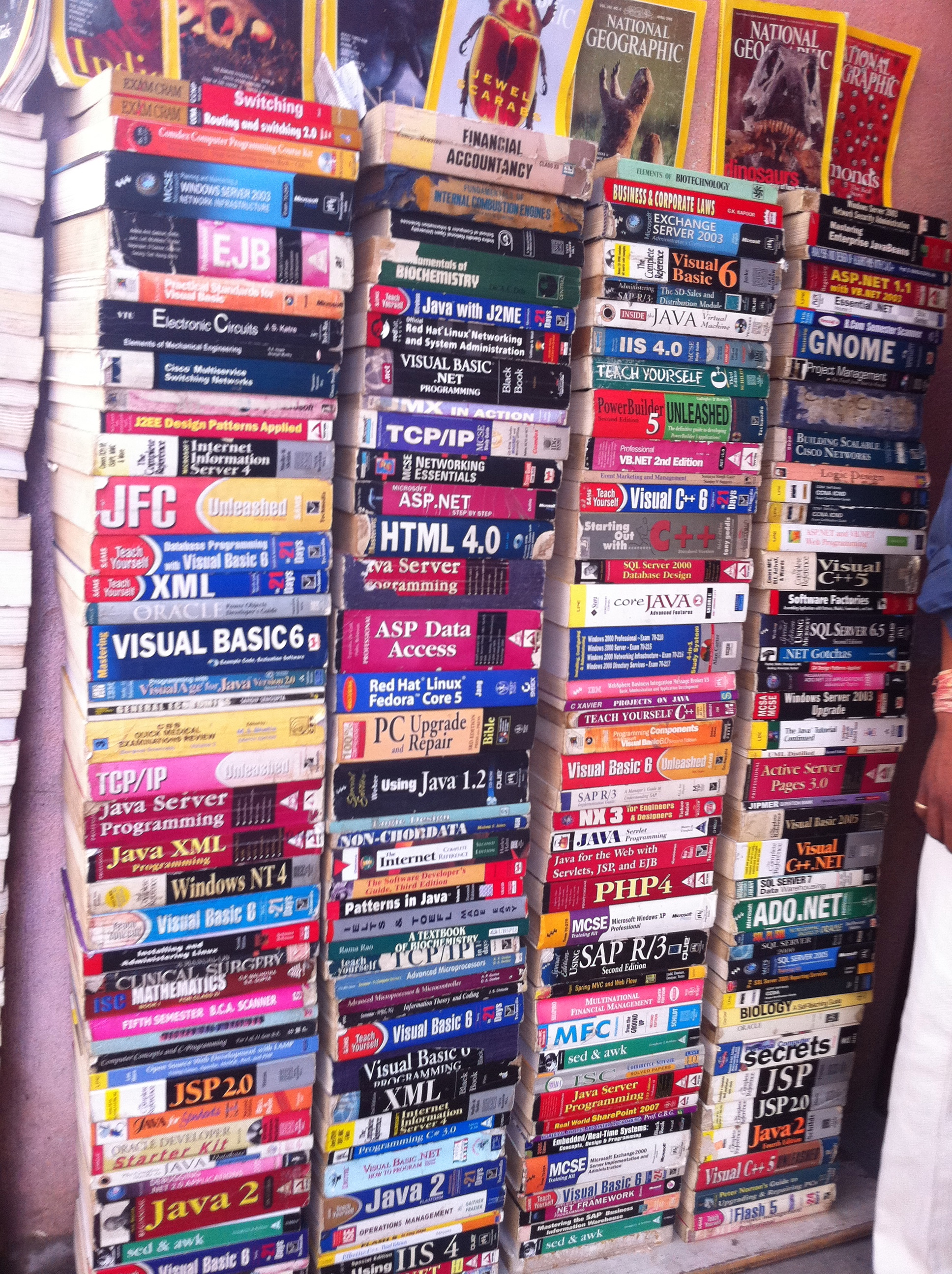 Bangalore India Tech books for sale